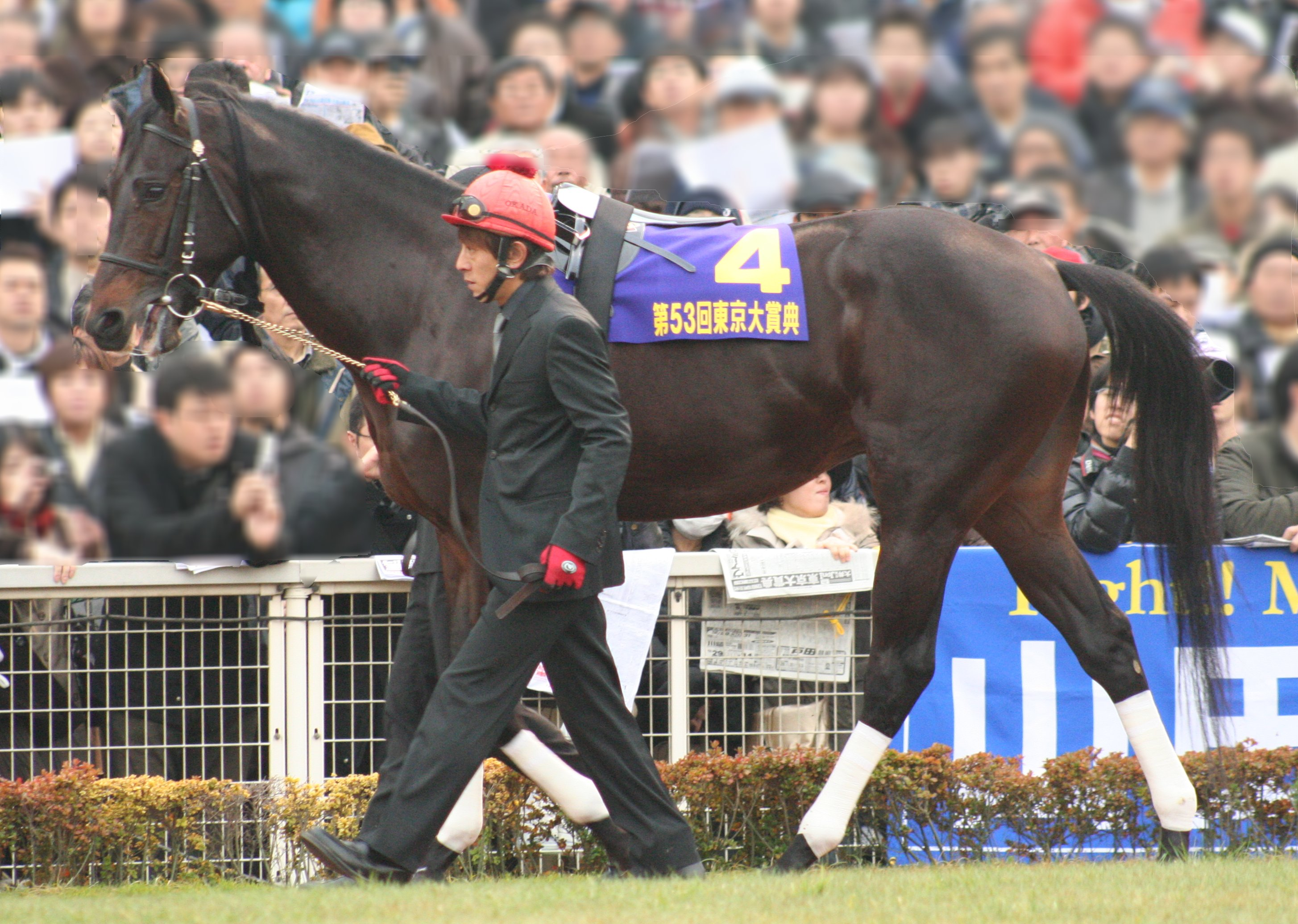 Ampersand (horse)